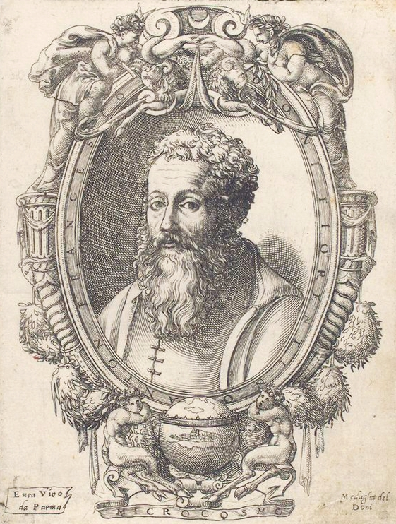 Italian writer and publisher Anton Francesco Doni (1513-1574) by Enea Vico (1523-1567).